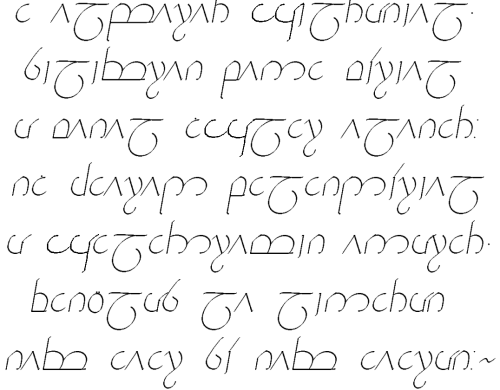 Sindarin text example